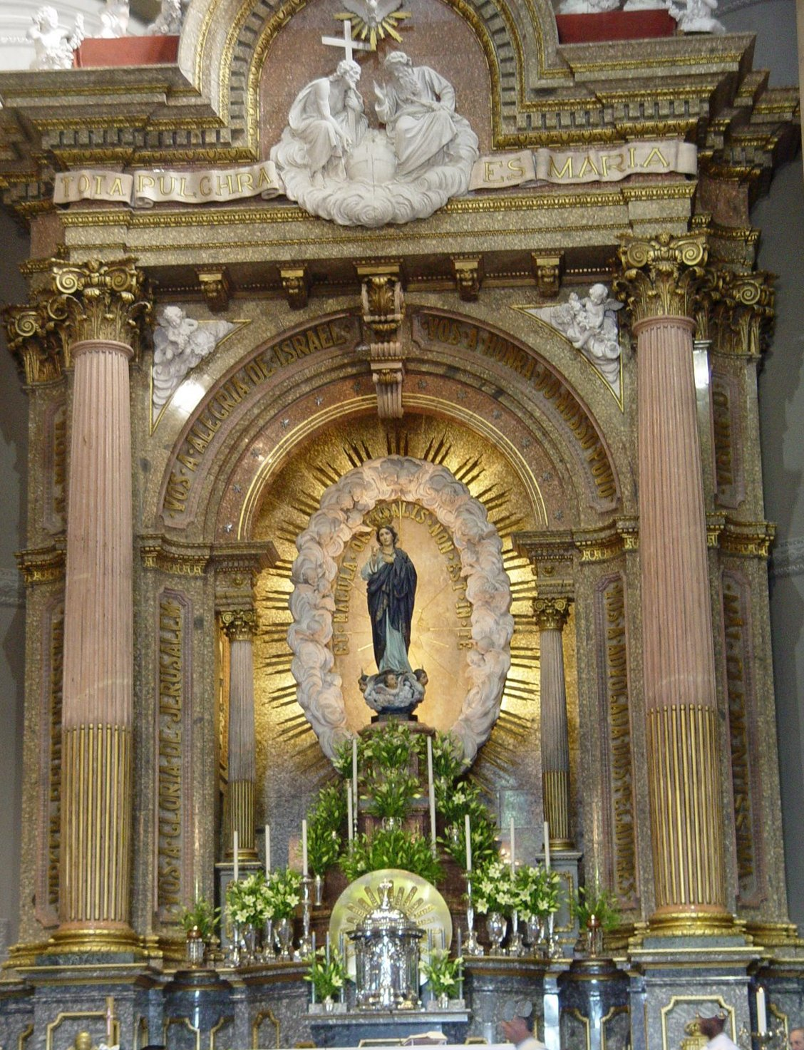 Altar in Sameiro Sanctuary, in Braga, Portugal